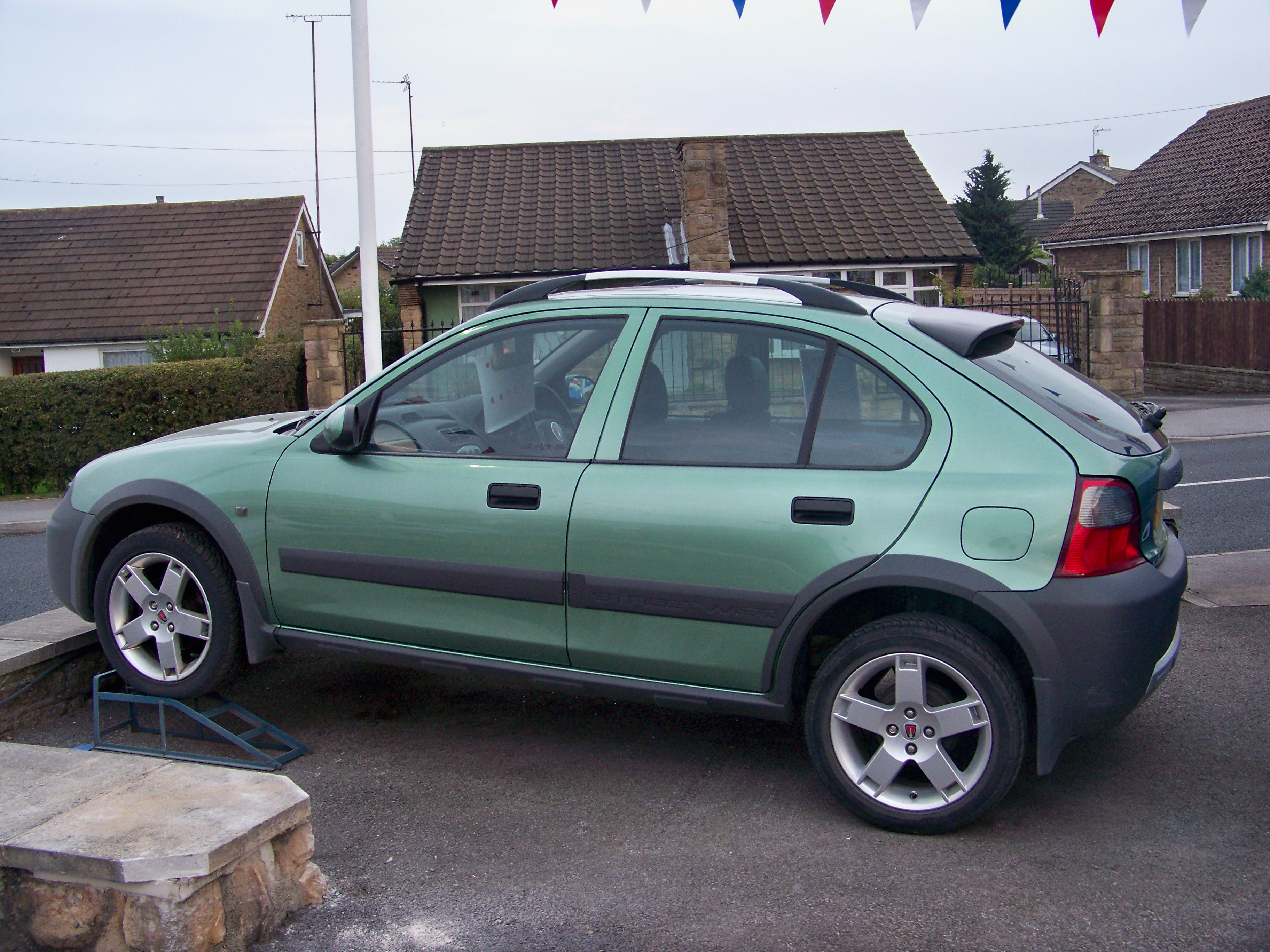 A Rover Streetwise in Green on a car sales forecourt (Niddvale Motors, Deighton Road, Wetherby, West Yorkshire). The cars selling price is £3995. Taken on the evening of Saturday 19th September 2009.